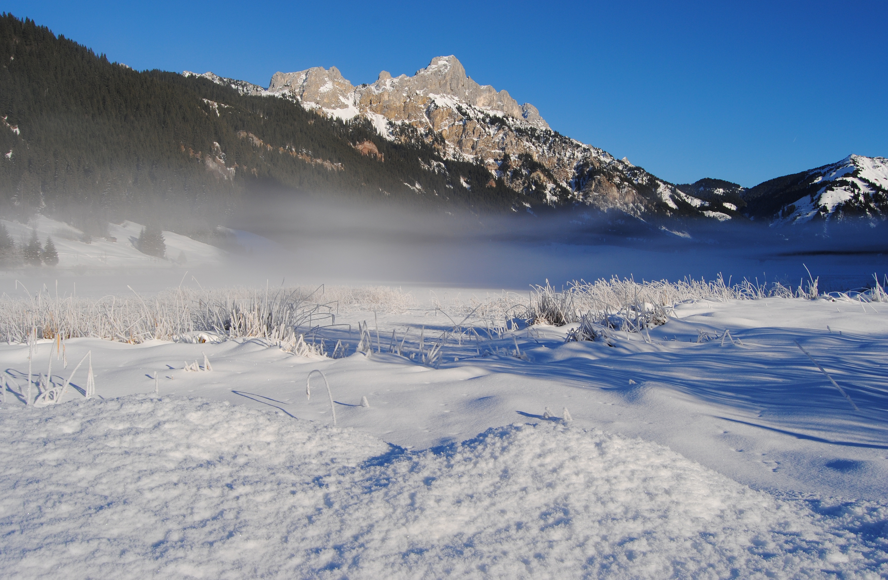 The Rote Flüh and several other mountains seen from west over the Haldensee (Grän, Tyrol, Austria), which is dipped in ground fog.